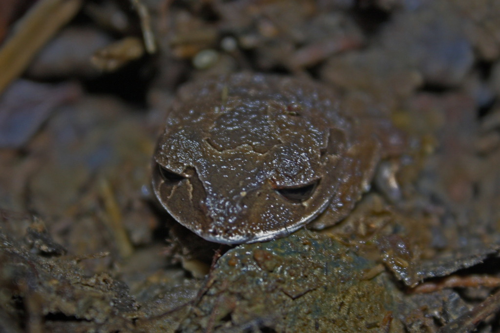 Hiding within a rotting log on the forest floor, next to a forest stream, in Kinabalu National Park. I found it because its call was quite different from any of the other frogs I'd heard in the area, which made me more detirmined to locate its hiding spot. At approximately 1500m above sea level.